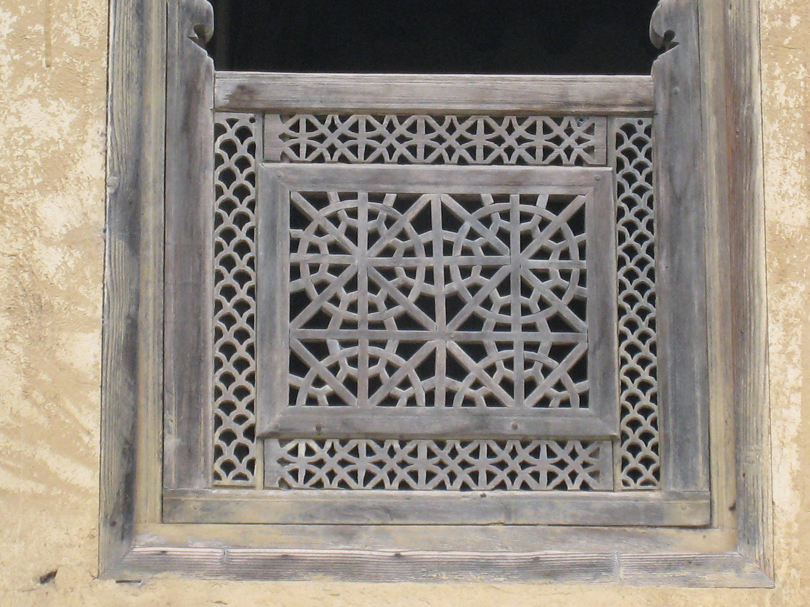 Mashrabiya on window of a traditional Masuleh house in Iran.